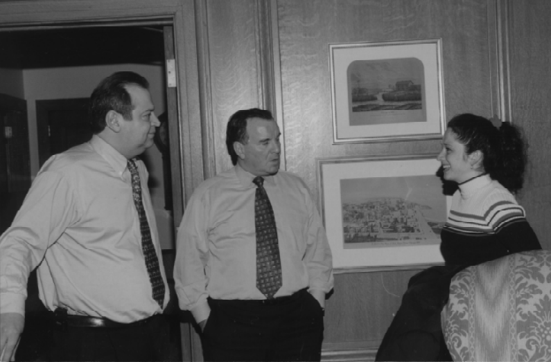 Susana Mendoza meets with Mayor Daley and incumbent Alderman Jesse Granato (1st Ward, Chicago), during runoff campaign, April 1999